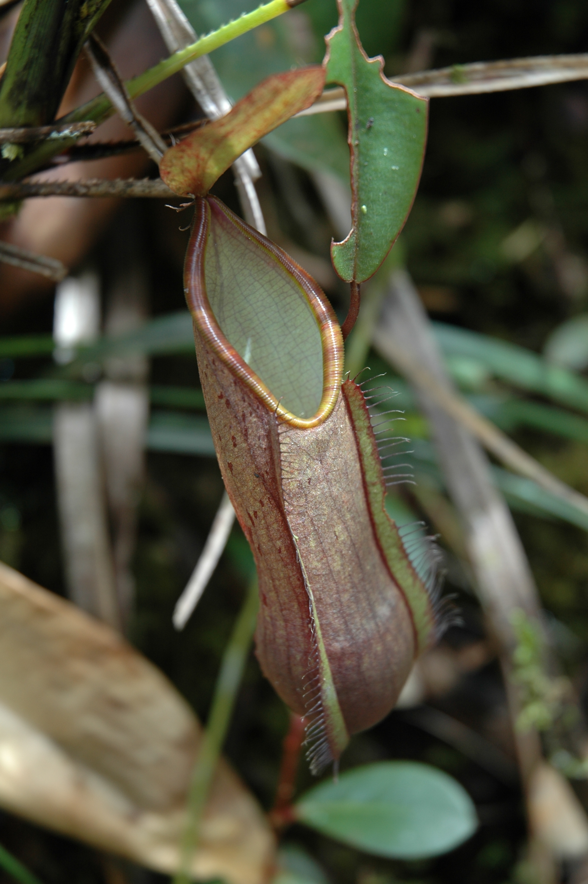 Nepenthes tentaculata Gunung Mulu Pinnacles by Jeremiah Harris